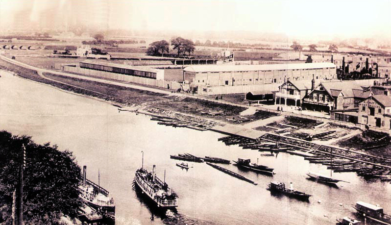 The City Ground, West Bridgford, Nottingham, home ground of Nottingham Forest F.C., pictured in 1898.